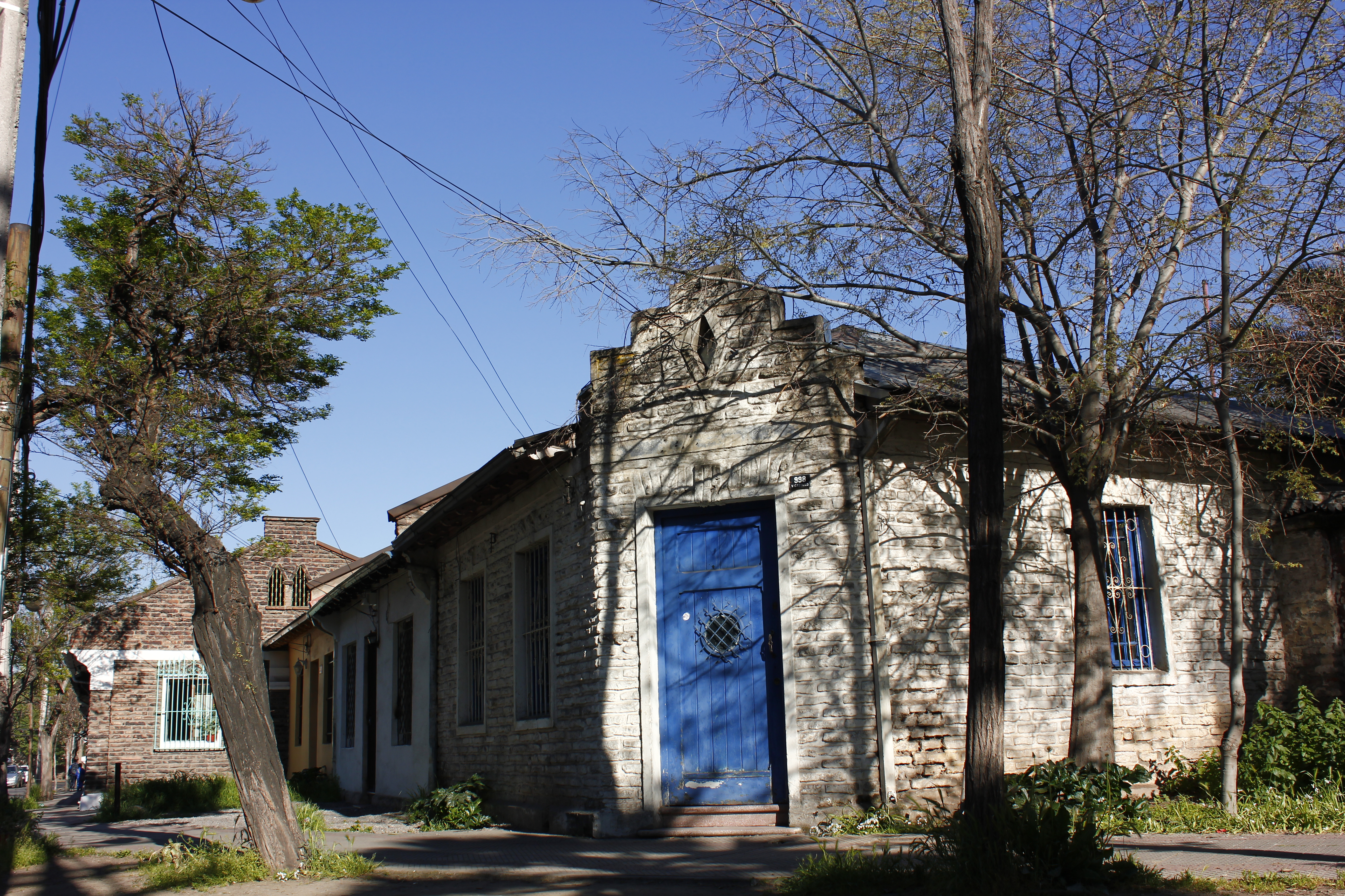 This is a photo of a national monument in Chile: 897